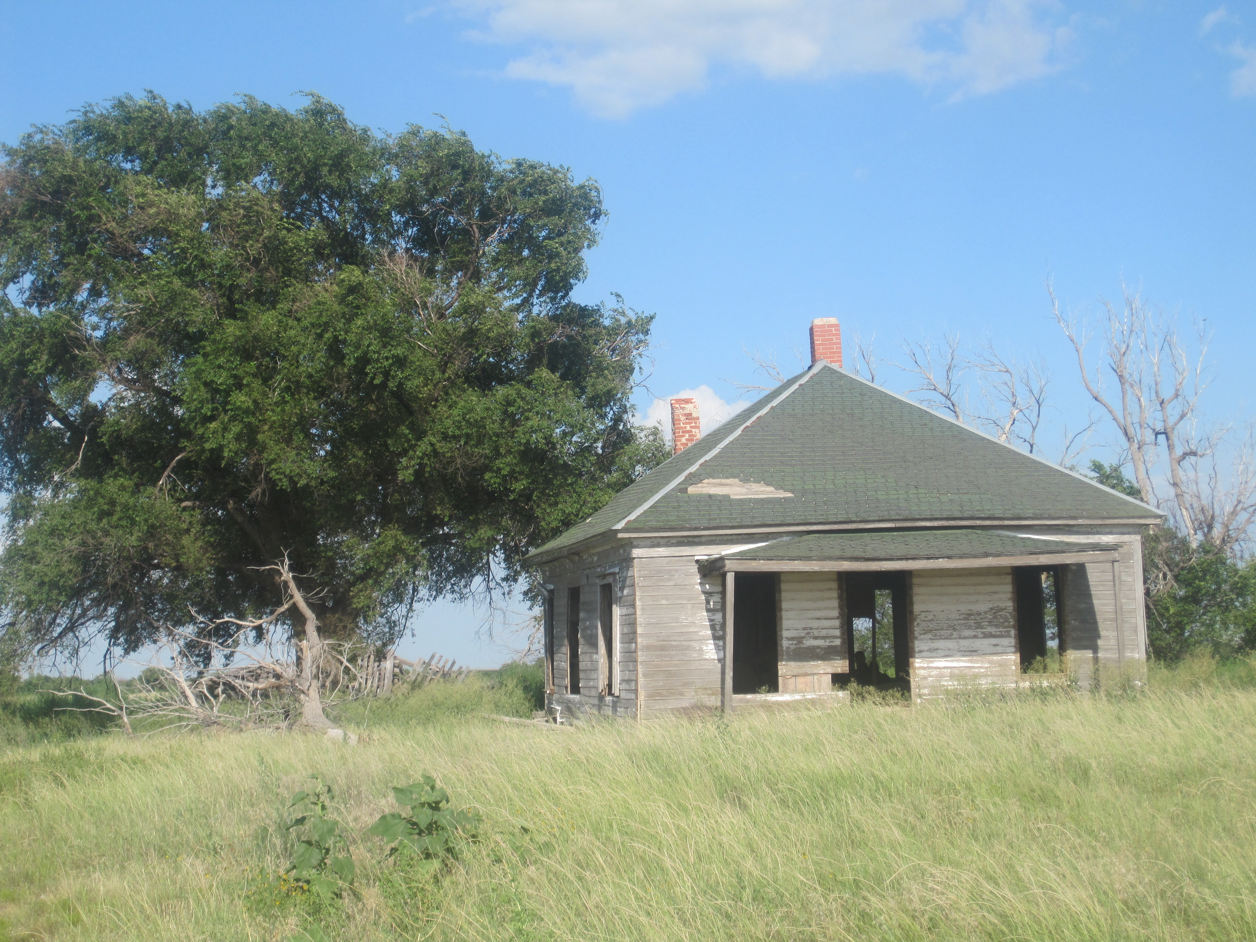 I took photo with Canon camera near Dalhart, Texas.